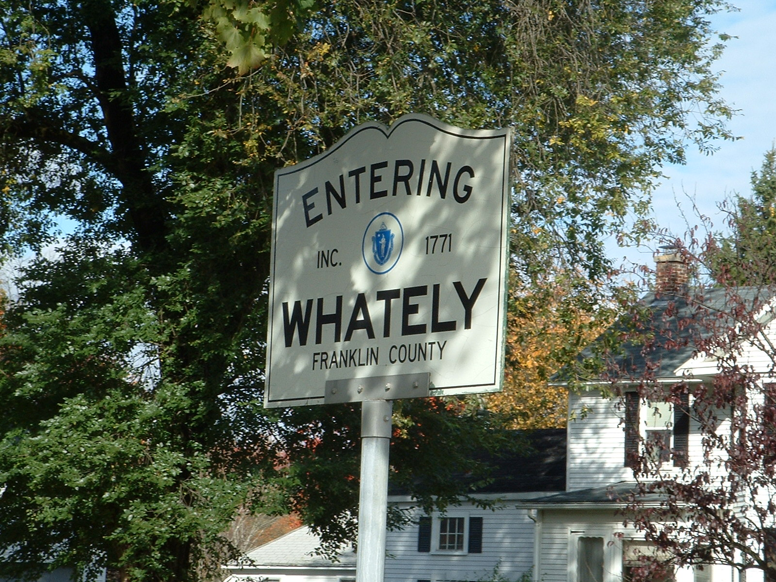 Entering Whately, Franklin County - Inc. 1771 Franklin County line, Routes 5/10, Whately-Hatfield town line, MA